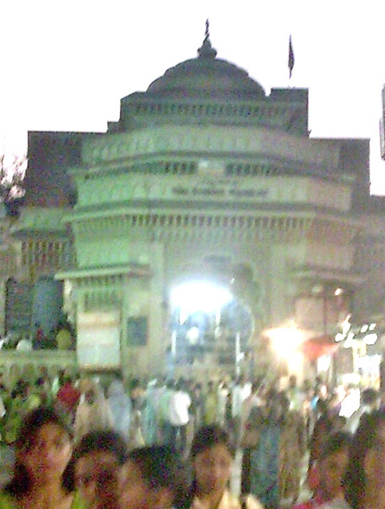 The chief gate of Vithoba's Pandharpur temple on the east side facing the river Chandrabhaga.